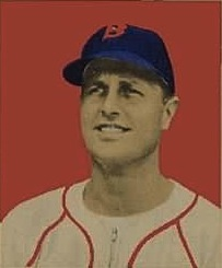 Boston Red Sox pitcher Jack Kramer.